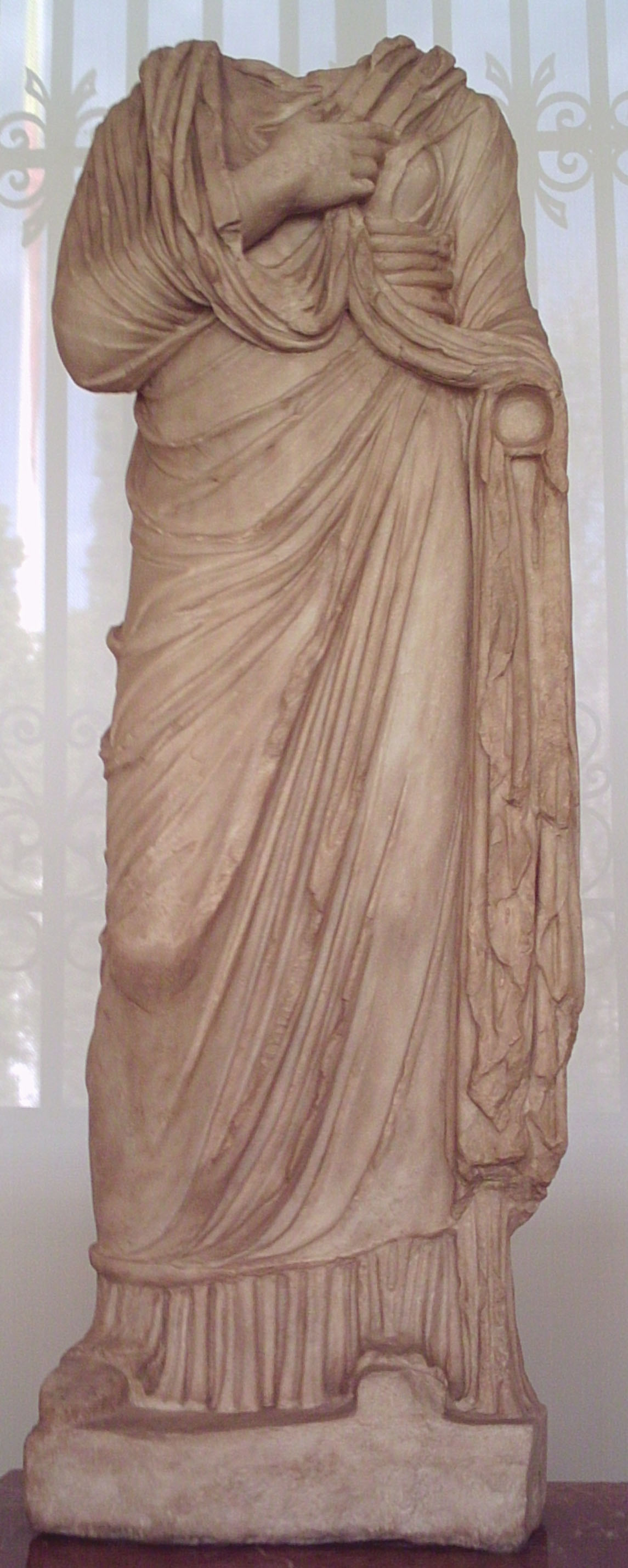 A Roman female statue.